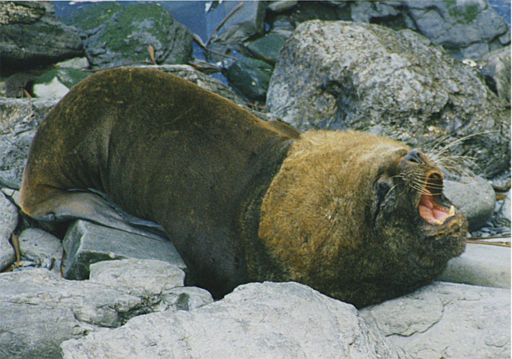 A male Southern Sea Lion at Falkland Islands. The image is a scan of my old print. The image was taken by Brocken Inaglory